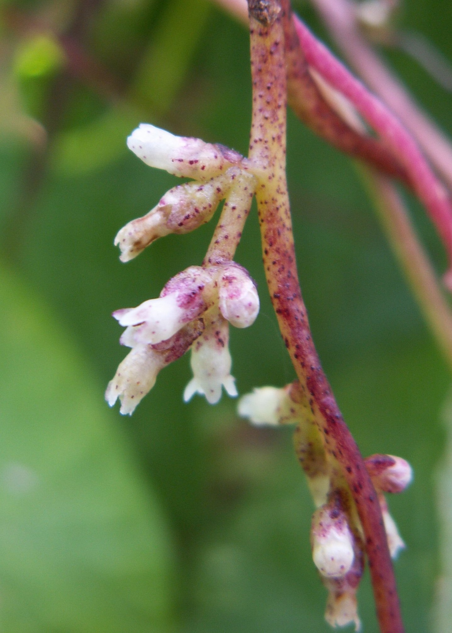 Cuscuta lupuliformis, flowers. Ognica on the Odra River, NW Poland